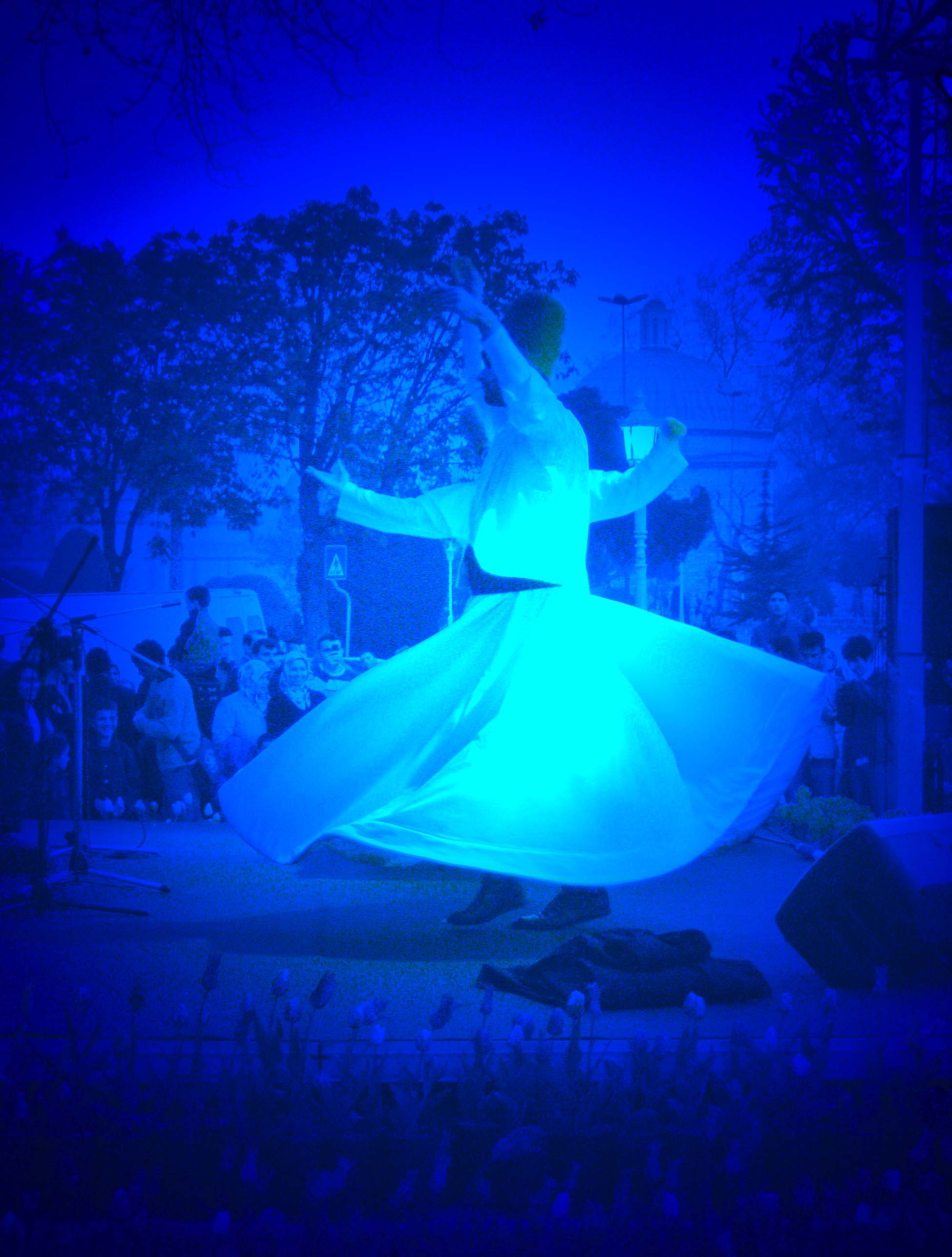 Mevlevi Dervishes Perform. (Sultanahmet, Istanbul, Turkey) The Mevlevi Order or the Mevleviye are a Sufi order founded by the followers of Jalal ad-Din Muhammad Rumi in 1273 in Konya (in Turkey at present). They are also known as the Whirling Dervishes due to their famous practice of whirling as a form of dhikr (remembrance of Allah). Dervish is a common term for an initiate of the Sufi Path. Principles The Mevlevoopee, or Mevleviye, one of the most well known of the Sufi orders, was founded in 1273 by Rumi's followers after his death, particularly his son, Sultan Veled Celebi (or Çelebi, Chelebi). The Mevlevi, or "The Whirling Dervishes", believe in performing their dhikr in the form of a "dance" and music ceremony called the sema. The Sema represents a mystical journey of man's spiritual ascent through mind and love to "Perfect." Turning towards the truth, the follower grows through love, deserts his ego, finds the truth and arrives at the "Perfect." He then returns from this spiritual journey as a man who has reached maturity and a greater perfection, so as to love and to be of service to the whole of creation.